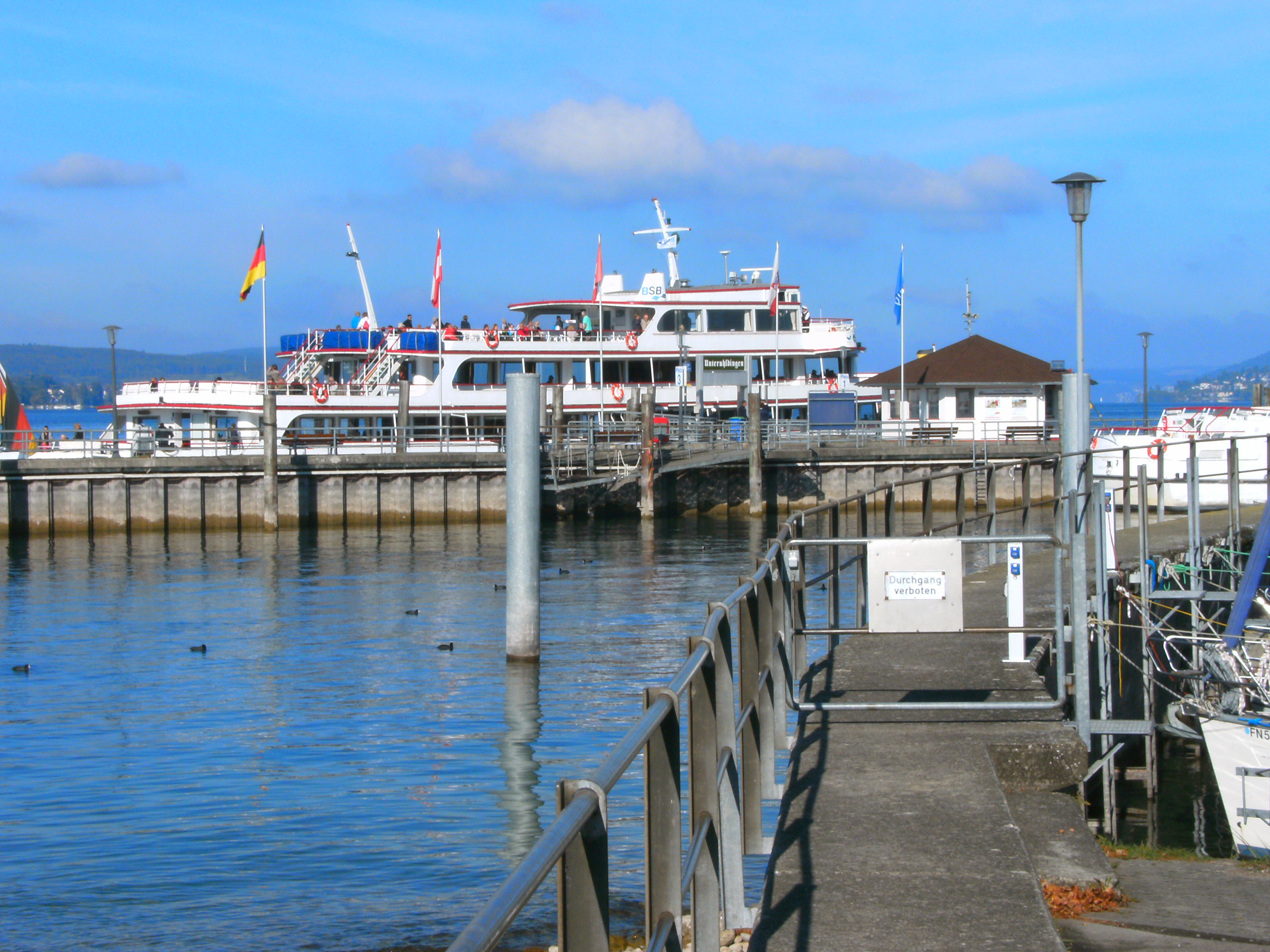 Unteruhldingen, Germany. Port with passengerboat of Bodensee-Schiffsbetriebe.